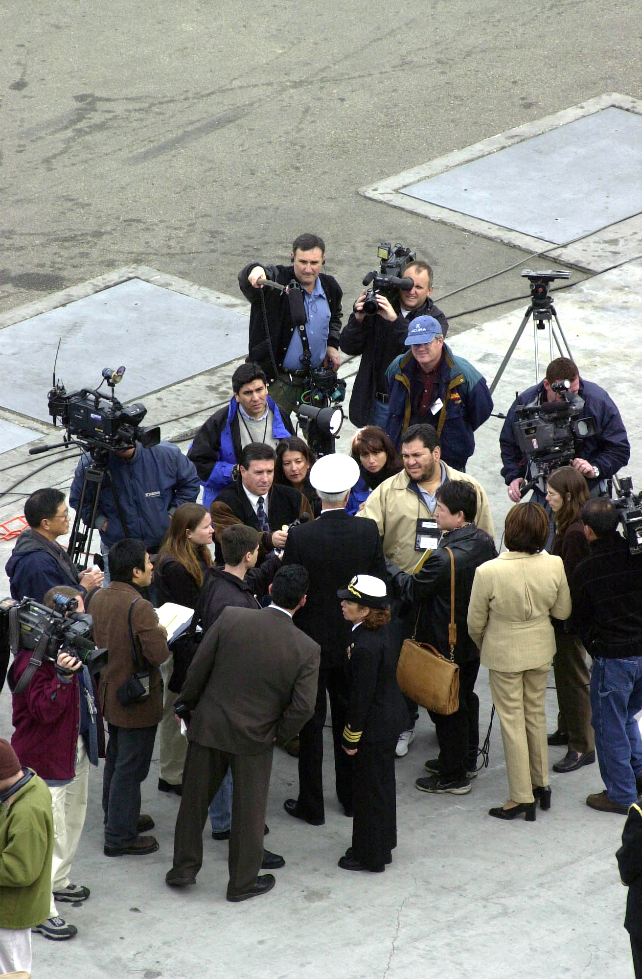 Naval Air Station North Island, Calif. (Mar. 3, 2003) -- Rear Adm. Samuel Jones Locklear, Commander Cruiser Destroyer Group Five, speaks with the local and national media about the upcoming deployment of USS Nimitz's (CVN 68). Nimitz, her battle group, Cruiser Destroyer Group Five, and her embarked Carrier Air Wing Eleven (CVW-11) are deploying in support of Operation Enduring Freedom. U.S. Navy photo by Chief Photographer's Mate Kevin S. Farmer. (RELEASED)